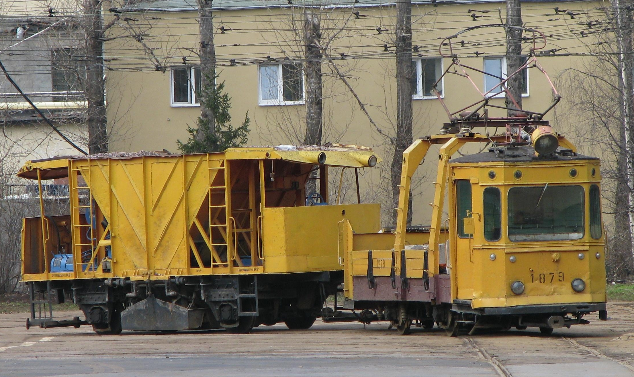 Cargo tram with wagon-dosage at Leonova depot (№2) in Saint Petersburg.